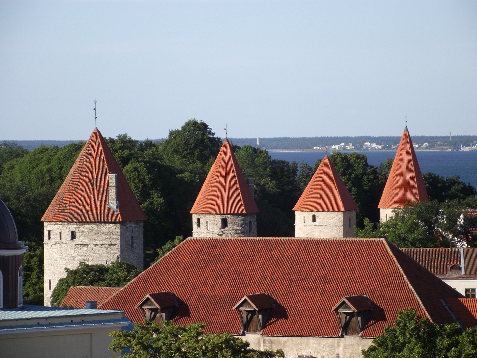 Four towers of Tallinn city wall. From left to right: Köismäe tower, Plate's tower, Epping's tower, Tower behind Grusbeke.